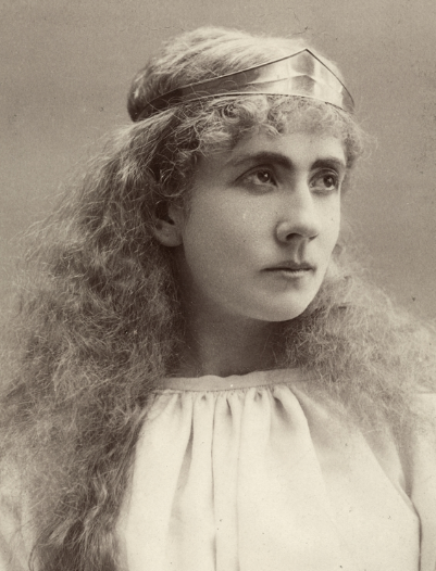 Photograph of the Danish actress Betty Hennings, 1850-1939, cropped version